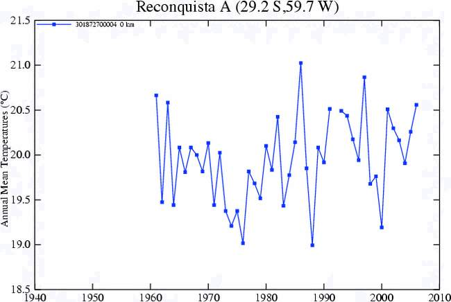 Graph of 1960 2007 air average temperaturas at city of Reconquista, Santa fe province, Argentina